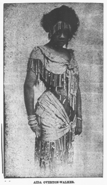 Aida Overton Walker, 1913